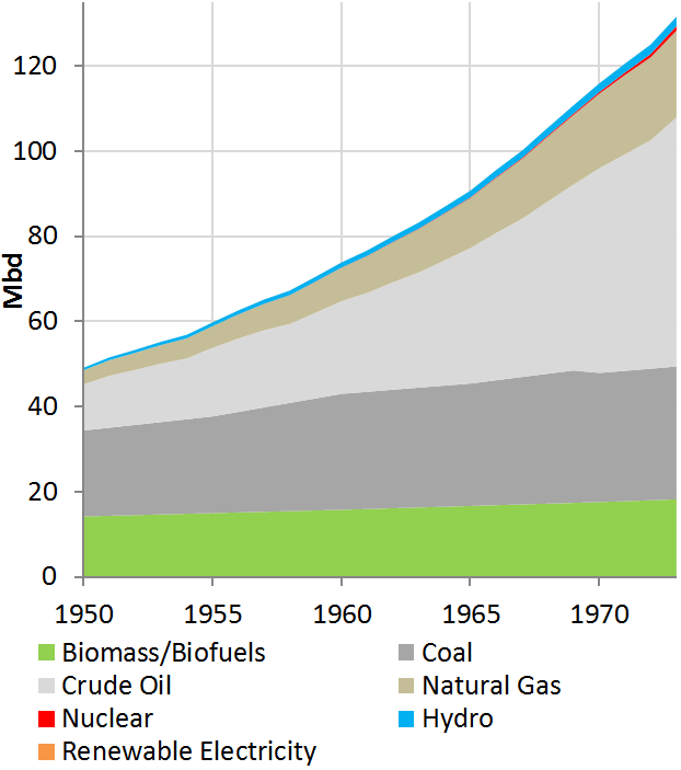 World Energy production in million barrels per day equivalent